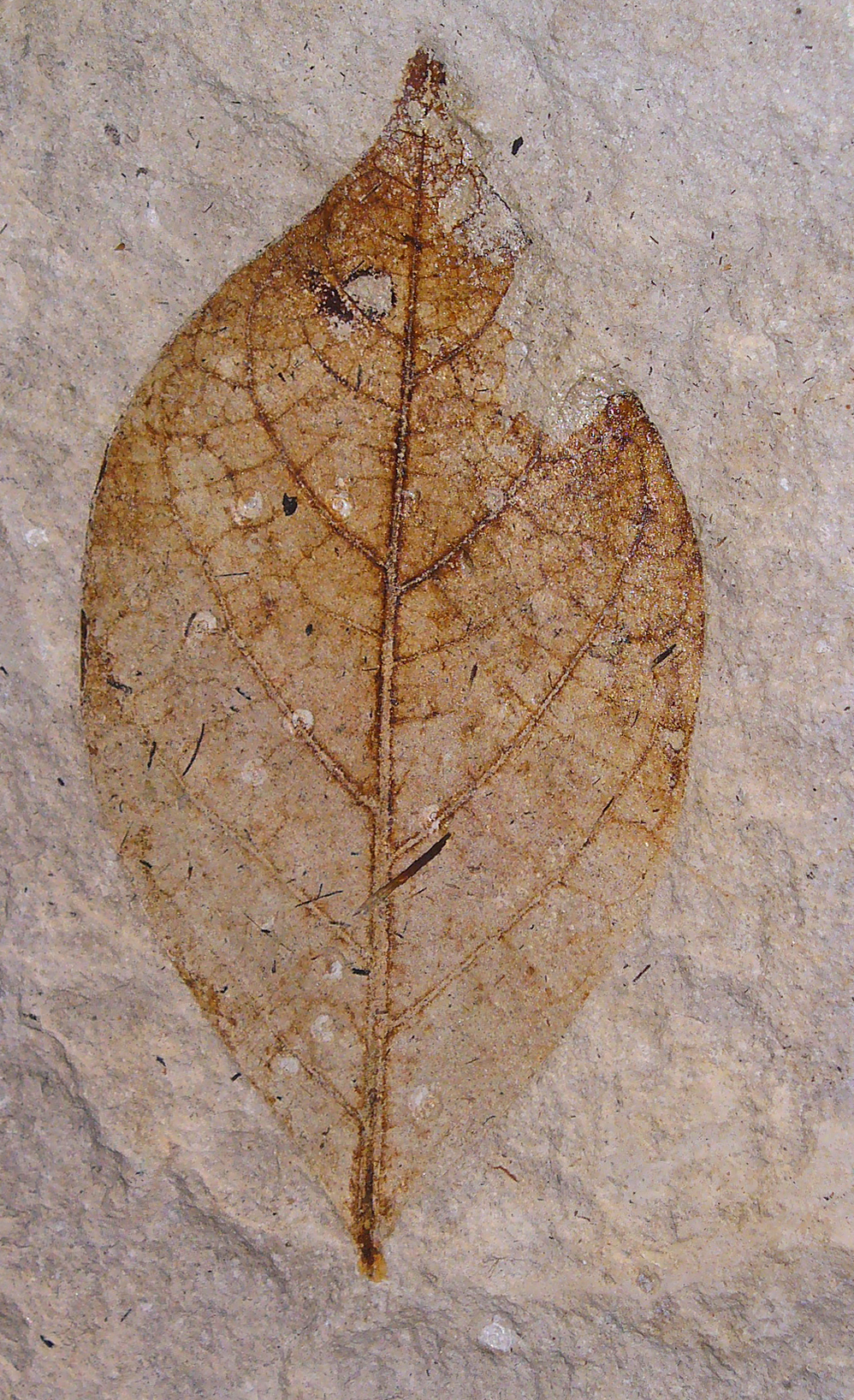 Persea princeps, Lauraceae, Miocene, Öhningen layers, Öhningen, Germany; Staatliches Museum für Naturkunde Karlsruhe, Germany.